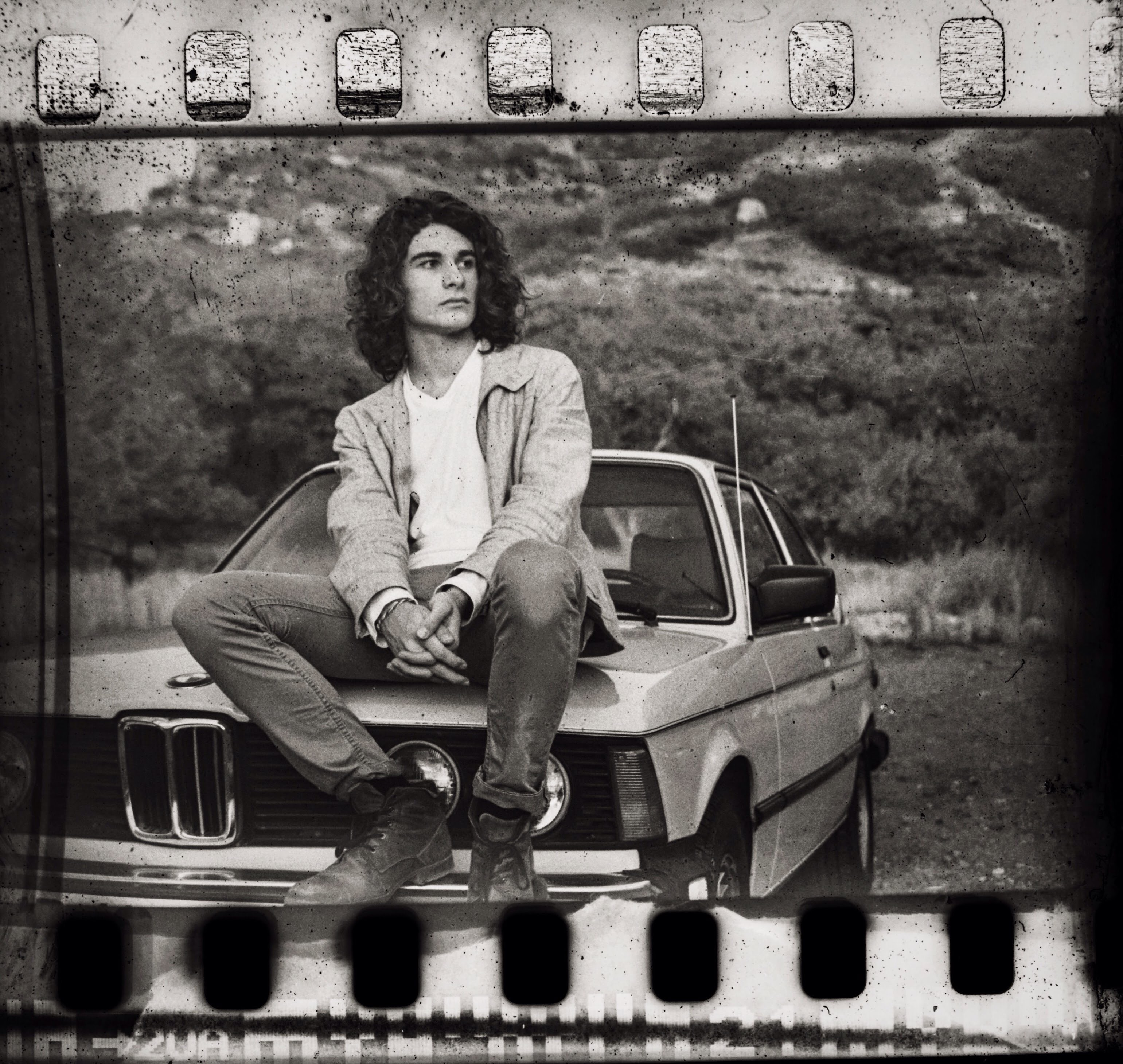 35mm film, developed in caffenol.